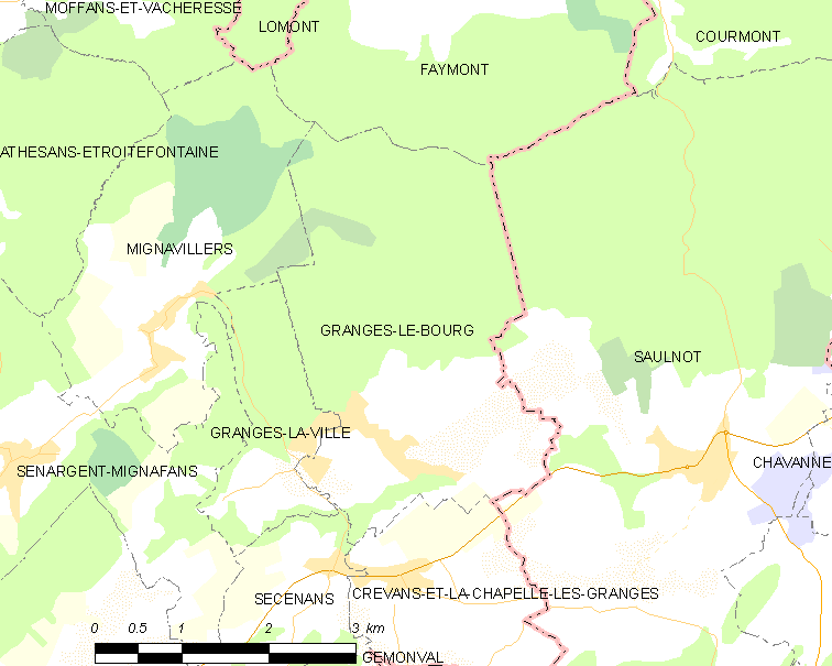 Map of French municipality